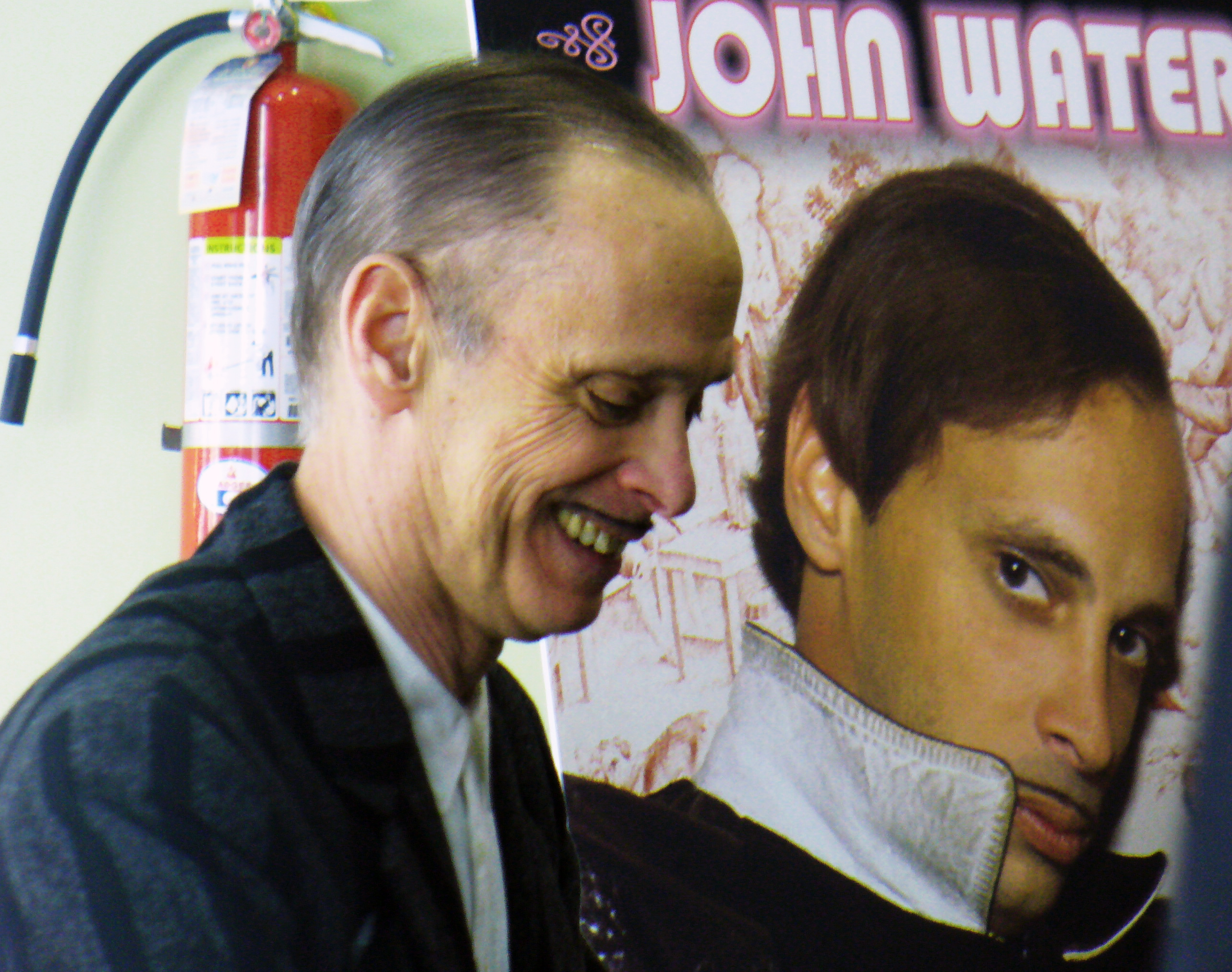 John Waters in New York City at the Chelsea Barnes and Nobles on 22nd and 6th Ave (now closed).